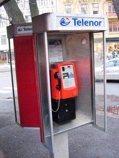 A modern Norwegian phone automat. Oslo, Norway.